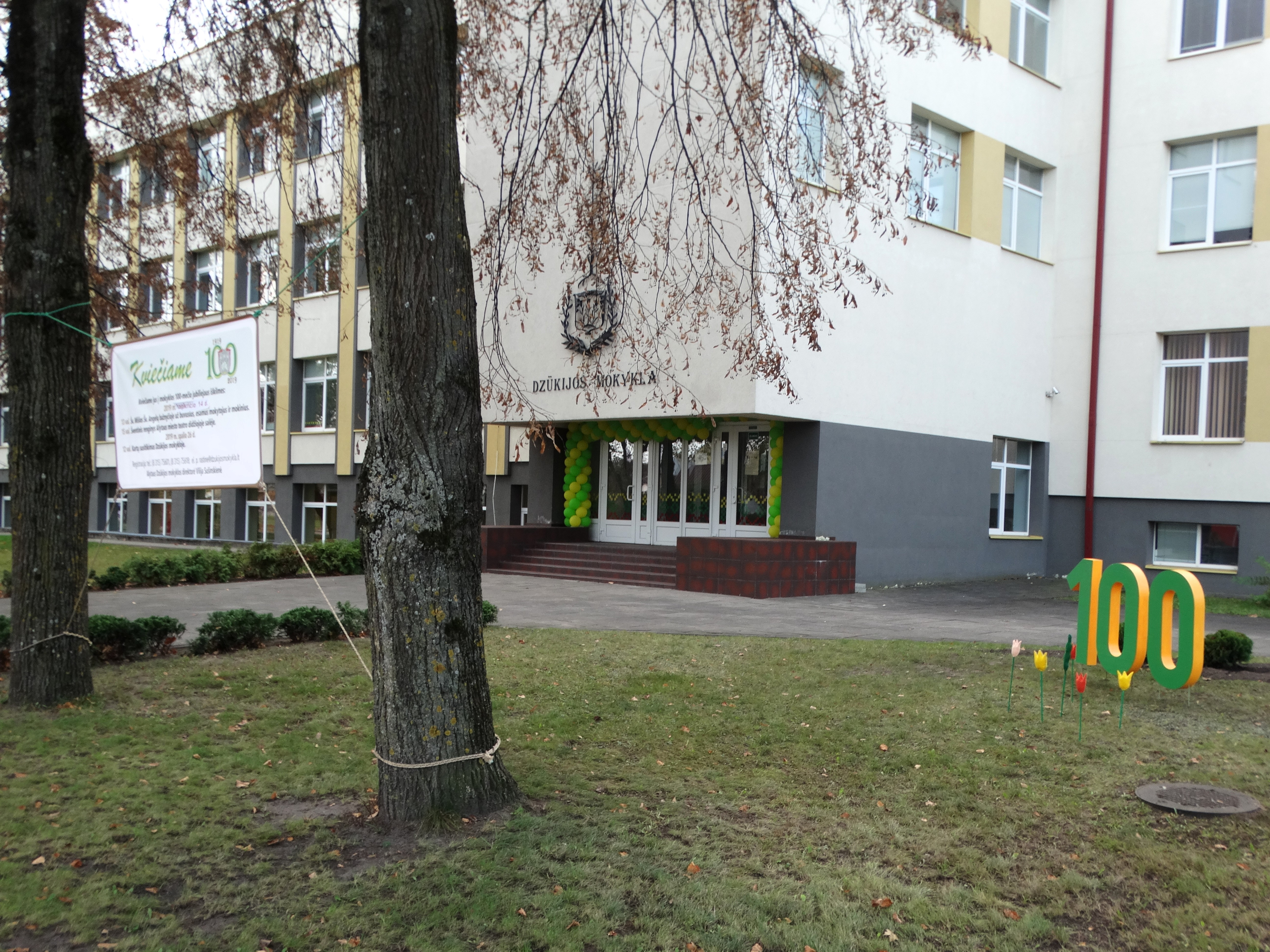 Alytus school Dzūkija, Lithuania